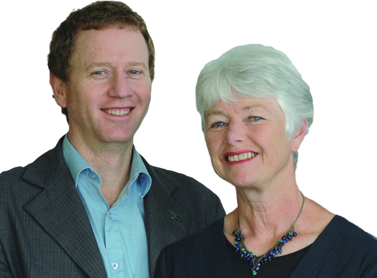 Official photo of Russel Norman and Jeanette Fitzsimons, Co-leaders of the Green Party of Aotearoa New Zealand [1], from the Image Gallery on the Green Party website.